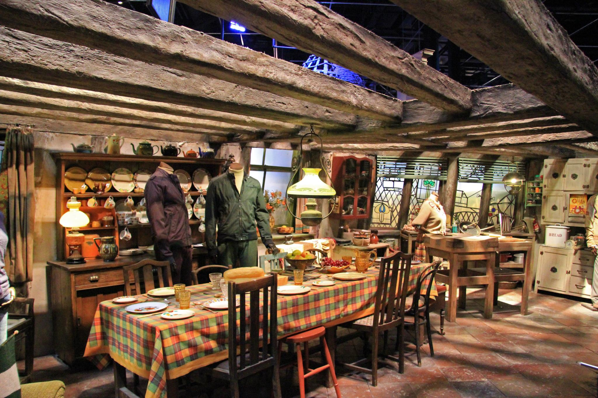 Warner Bros. Studio Tour London: The Making of Harry Potter.